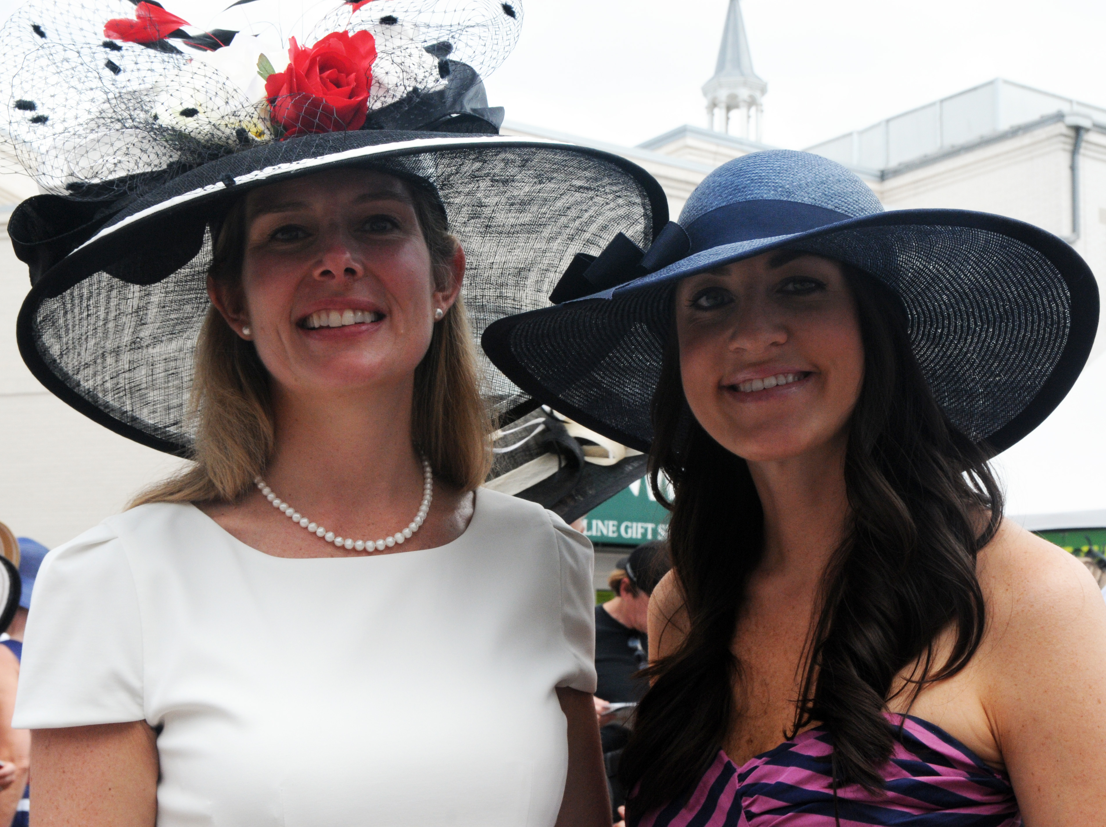 (Photo by: Spc. David Bolton, Public Affairs Specialist, 133rd Mobile Public Affairs Detachment, Kentucky Army National Guard).